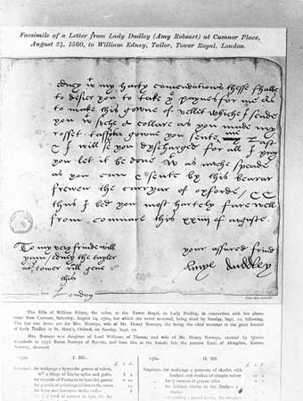 Facsimile of a letter written by Amy Dudley, nee Robsart (1532–1560), wife of Robert Dudley, later Earl of Leicester. Dated 24 August 1560, 15 days before her death, she wrote to her London Taylor, William Edney, regarding one of her dresses.